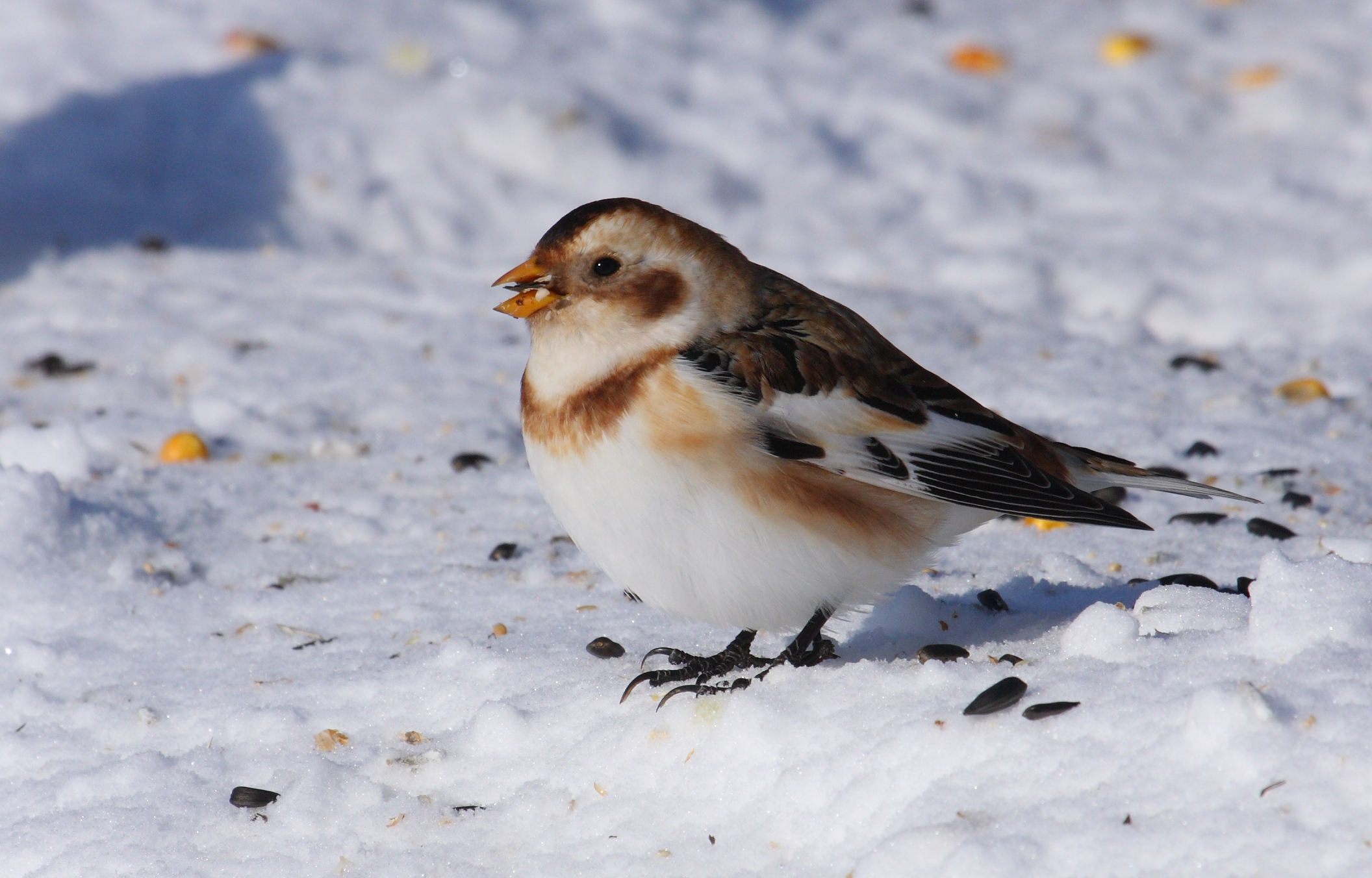 Snow Bunting, (Plectrophenax nivalis), Cap Tourmente National Wildlife Area, Quebec, Canada